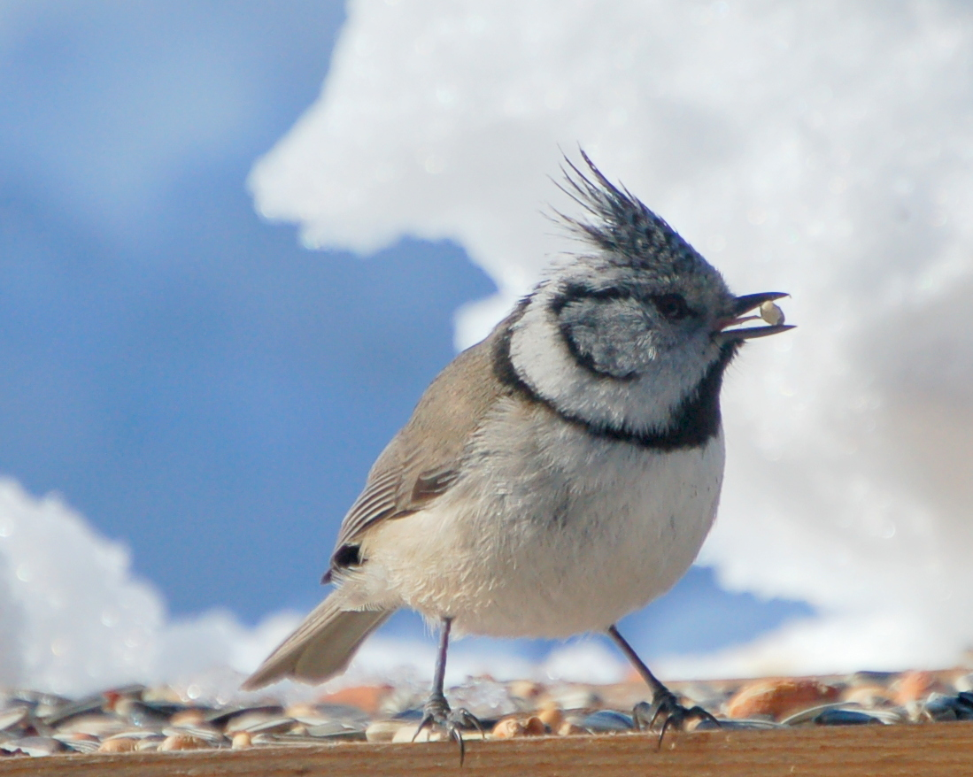 Crested Tit - Lophophanes cristatus in Norway